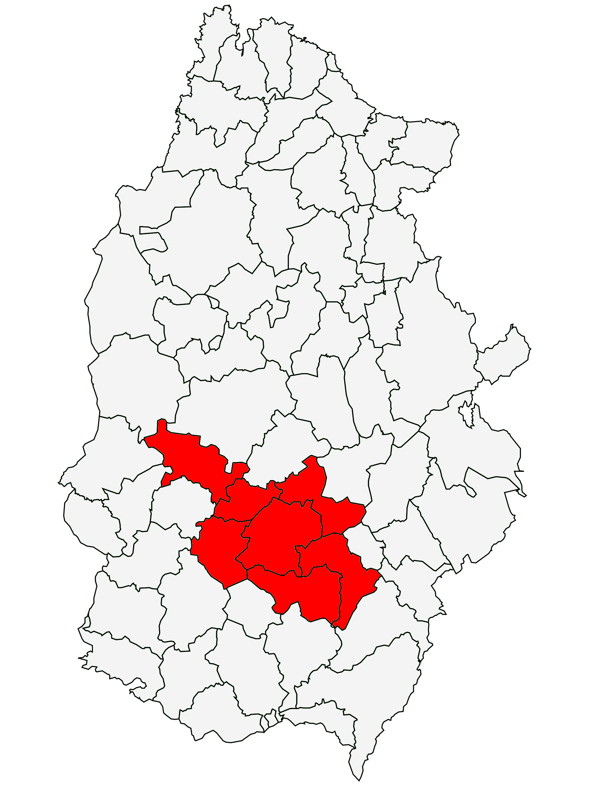 Sarria